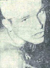 Vlado Brinovec (1937-), Slovenian swimmer.